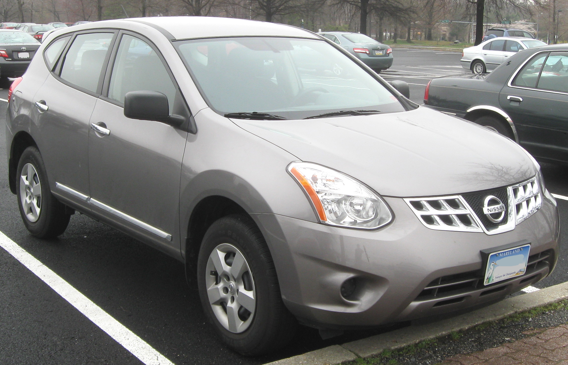 2011 Nissan Rogue photographed in College Park, Maryland, USA.